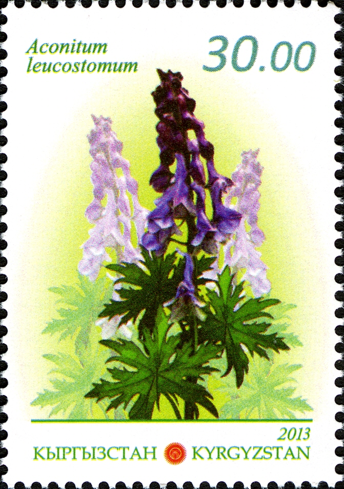 Stamps of Kyrgyzstan, 2013